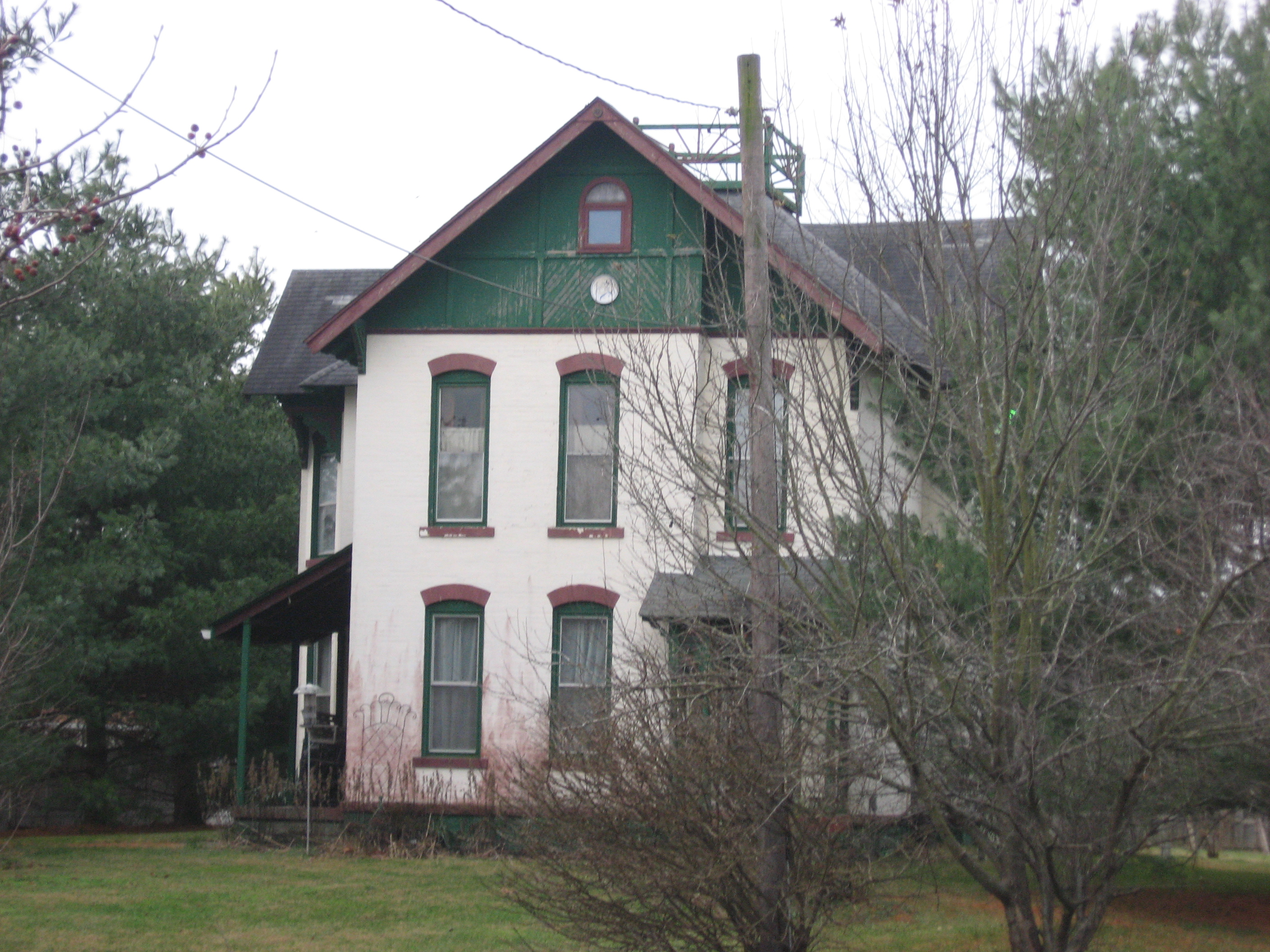 Front of the Blankenship-Hodges-Brown House, located at 7455 W. Old State Road 67 near Paragon in Ray Township, Morgan County, Indiana, United States. Built in 1875, it is listed on the National Register of Historic Places.